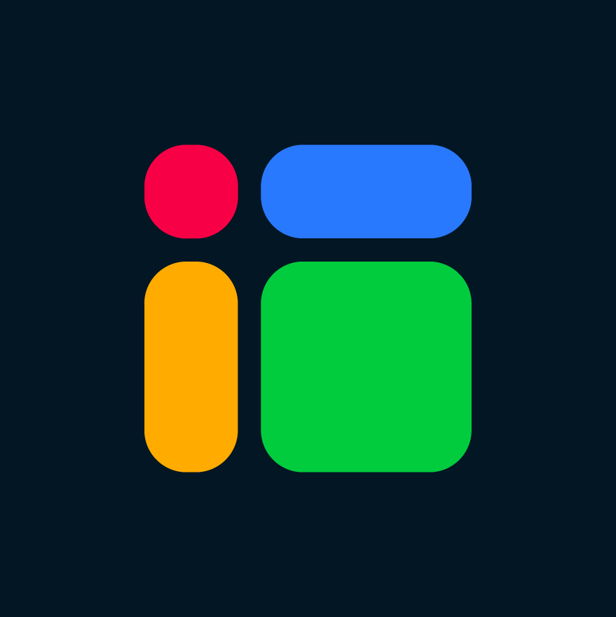 Sheetgo logo